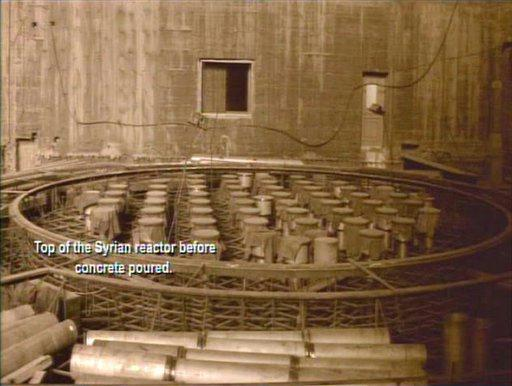 Syrian nuclear reactor under construction, fuel tubes and reactor room floor prior to concrete pour.